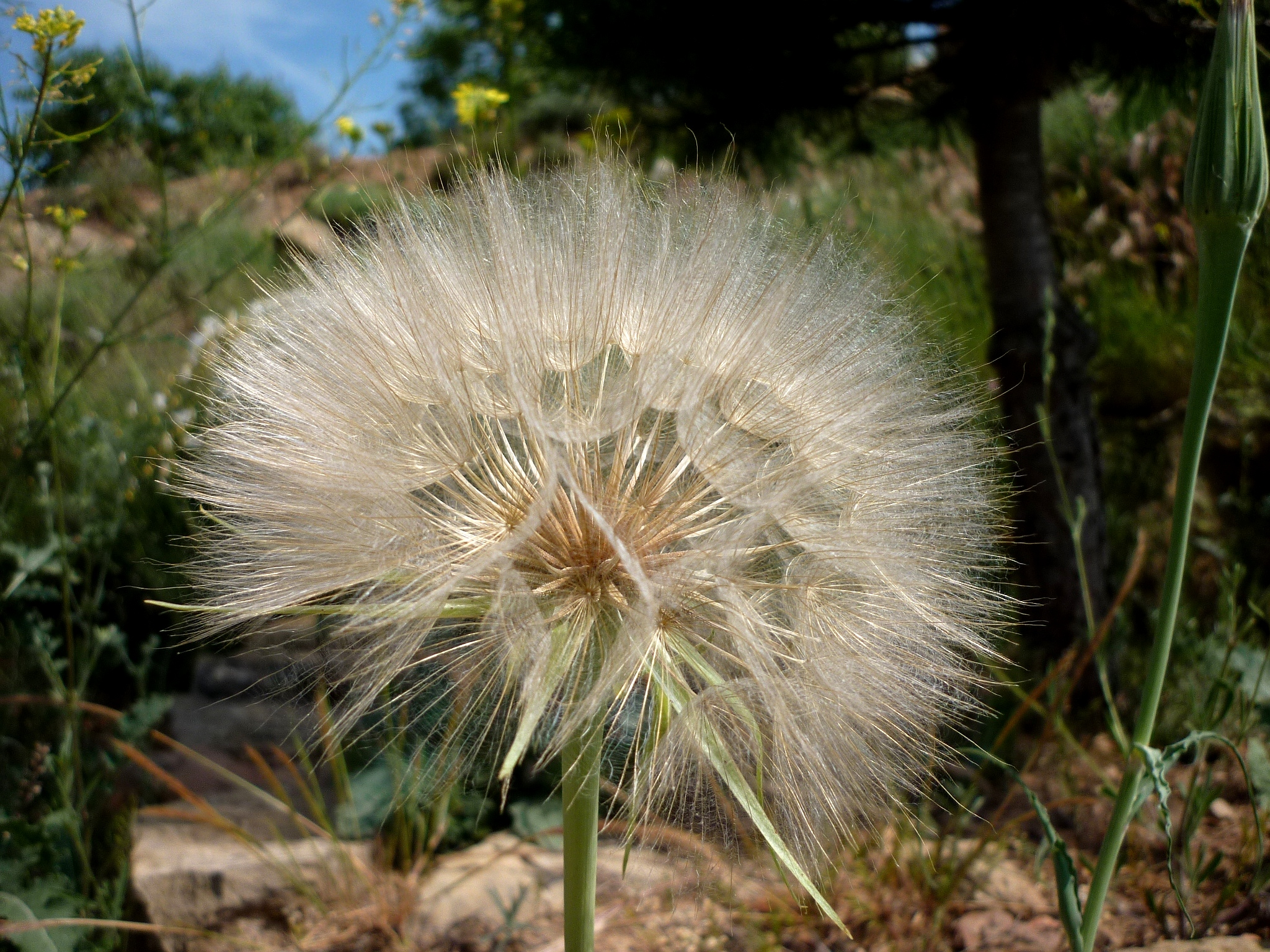 Tragopogon dubius. In Torà (Segarra-Catalunya). To 575 m. altitude